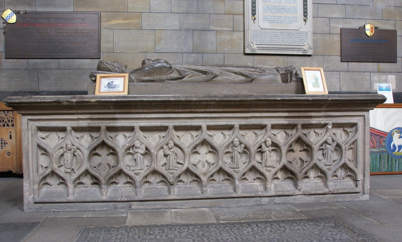 Paisley Abbey, Paisley, Renfrewshire, Scotland. Tomb of Marjorie Bruce.